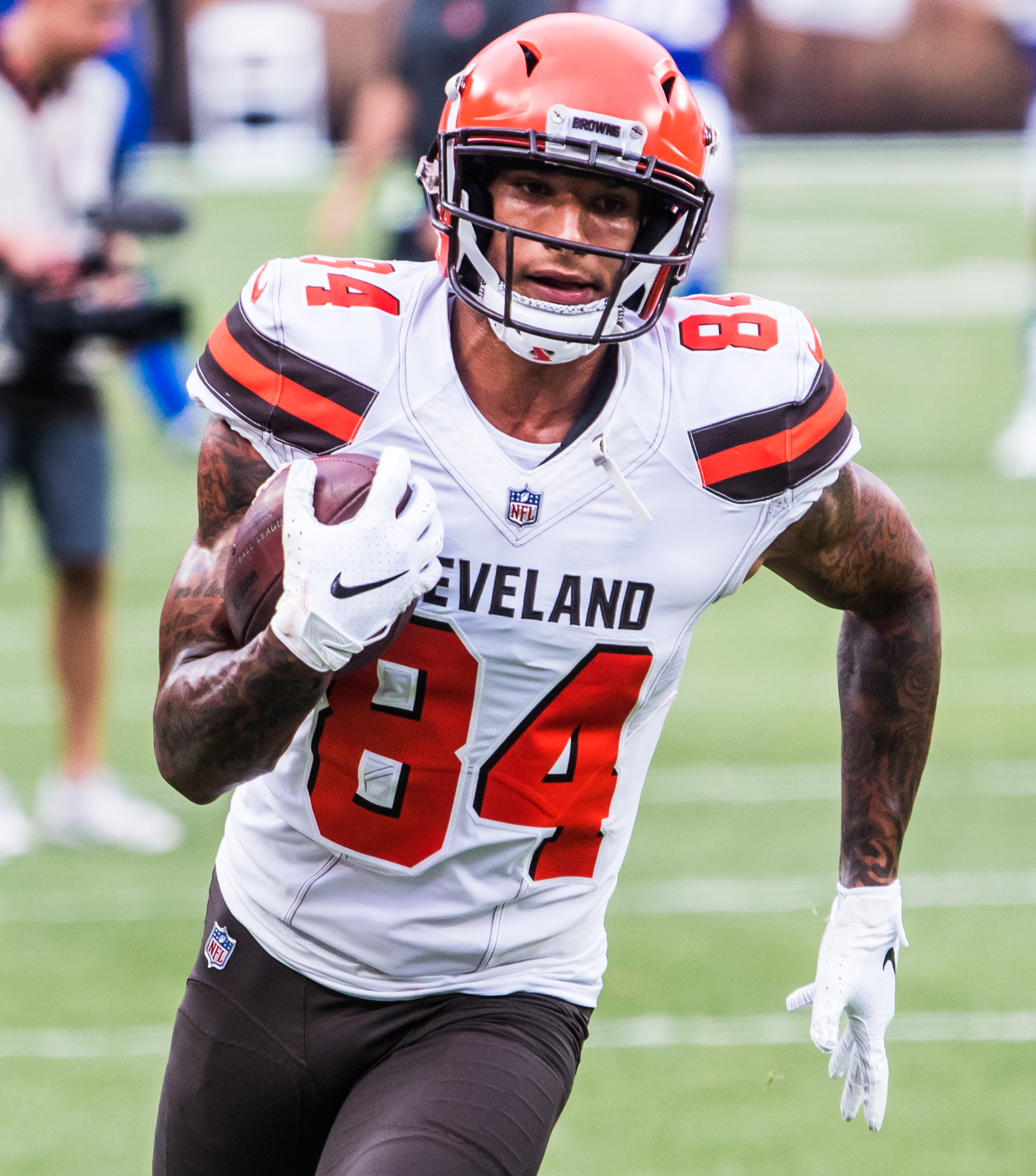 Derrick Willies before a preseason game with the Cleveland Browns in Cleveland in August 2018.